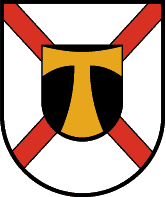 Source: "Fahnen-Gärtner GmbH, Mittersill" Licensing[edit] This image shows a flag, a coat of arms, a seal or some other official insignia. The use of such symbols is restricted in many countries. These restrictions are independent of the copyright status. This image is in the public domain according to Austrian copyright law because it is part of a law, ordinance or official decree issued by an Austrian federal or state authority, or because it is of predominantly official use. (§7 UrhG) To uploader: Please provide where the image was first published and who created it.